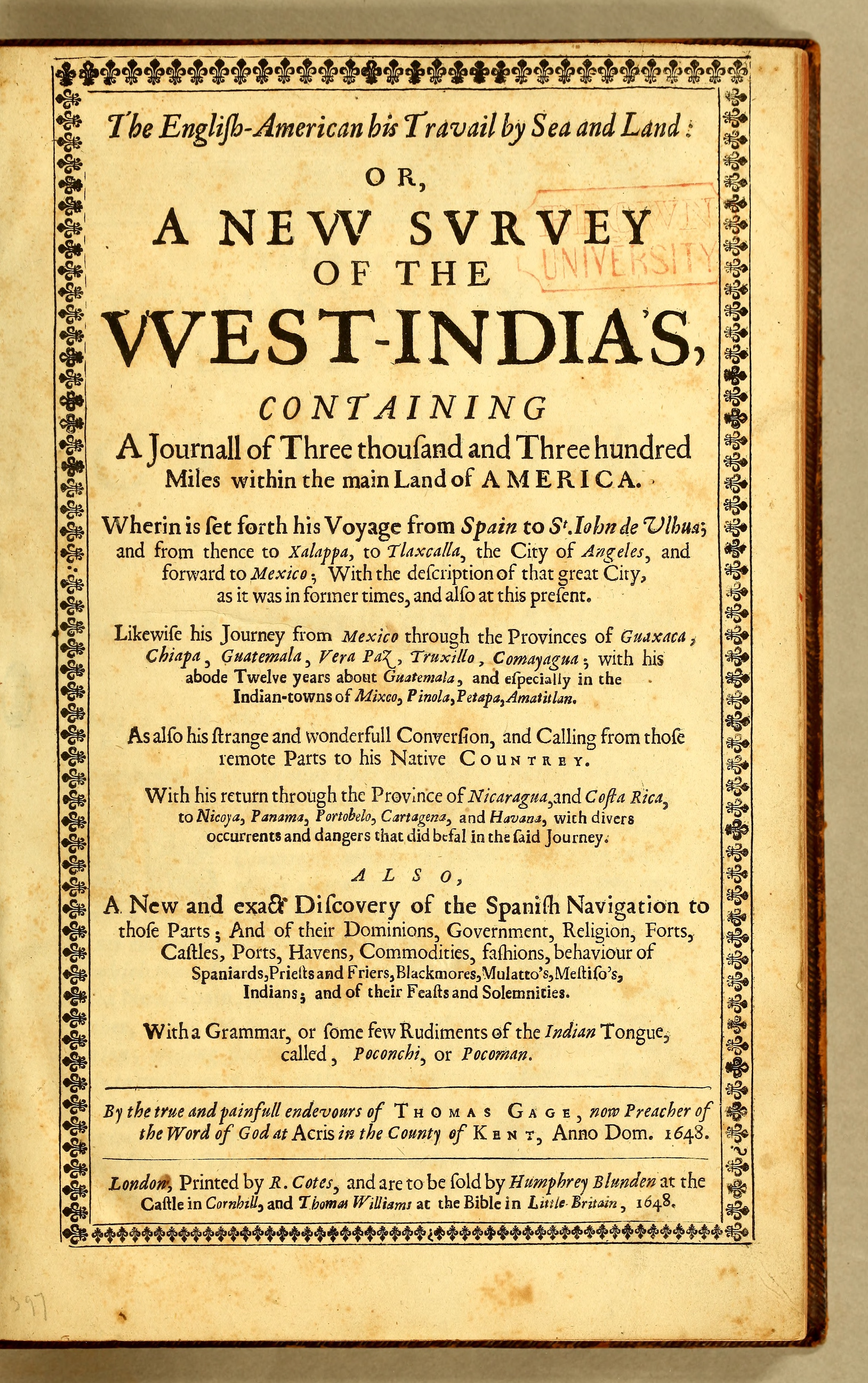 Title Page from Thomas Gage's The English-American his travail by sea and land: or, A new survey of the West-India's (London 1648)